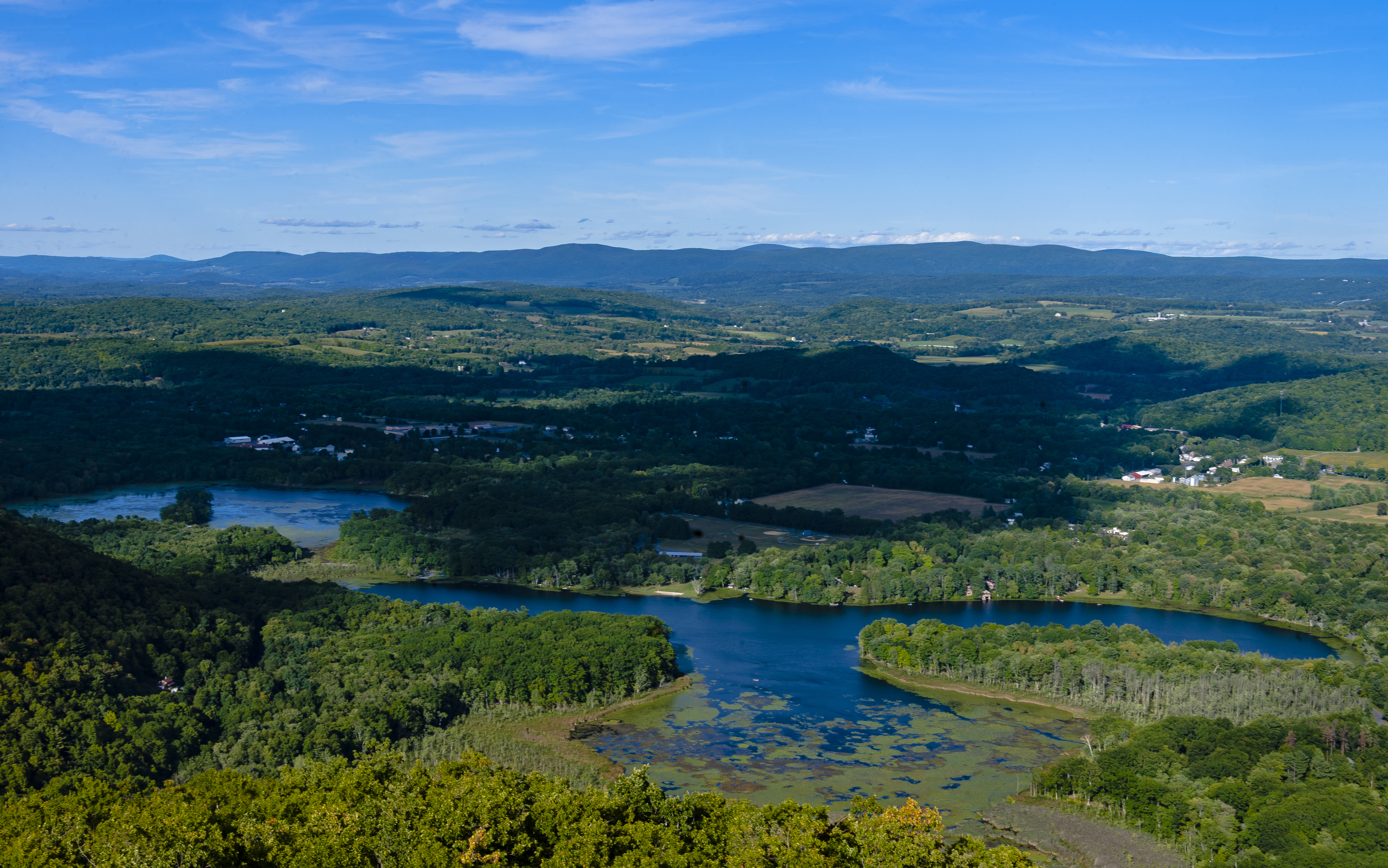 View of the hamlet of Pine Plains, NY, USA, from the firetower on Stissing Mountain, and the areas of Dutchess and Columbia counties beyond it.